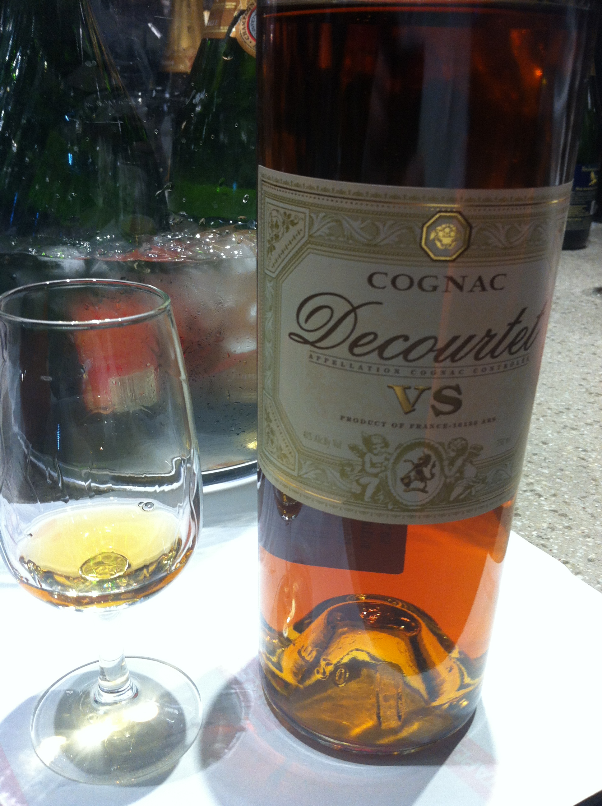 French brandy from the Cognac zone